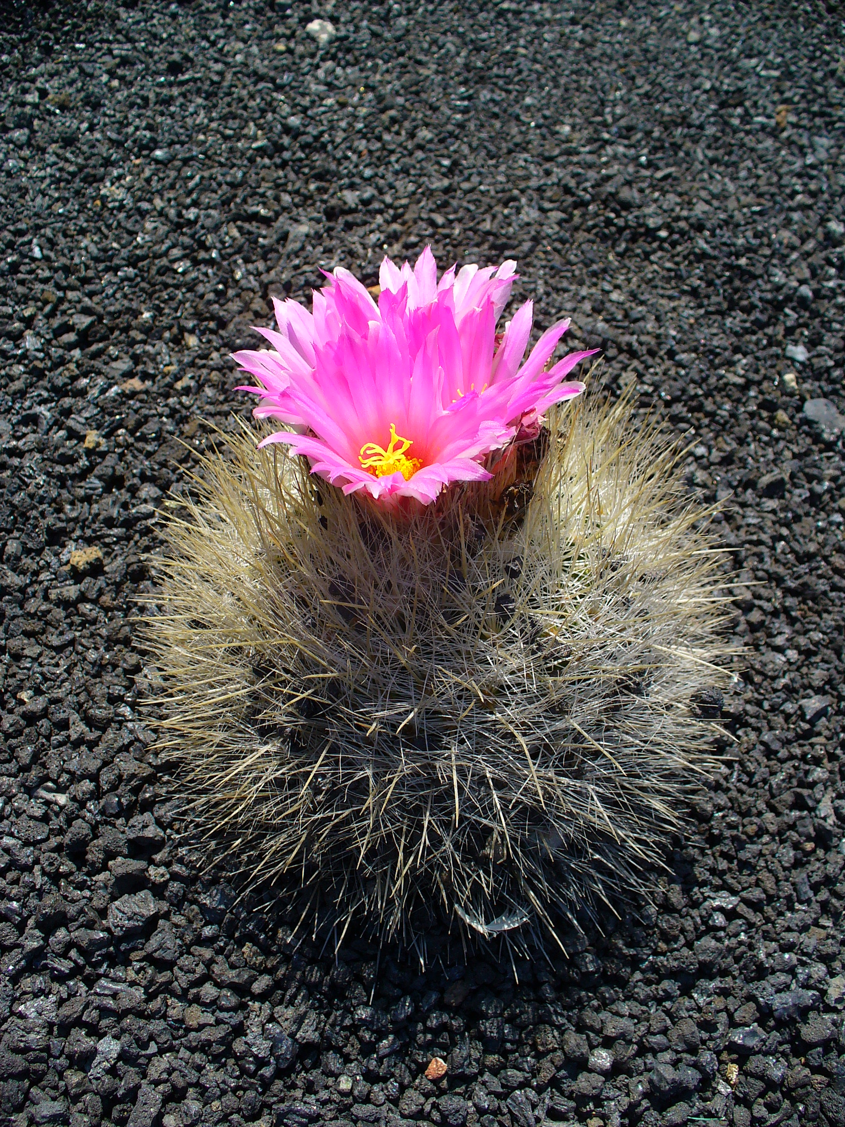 Habitus; Jardin de Cactus, Guatiza, Lanzarote, Canary Islands, Spain.